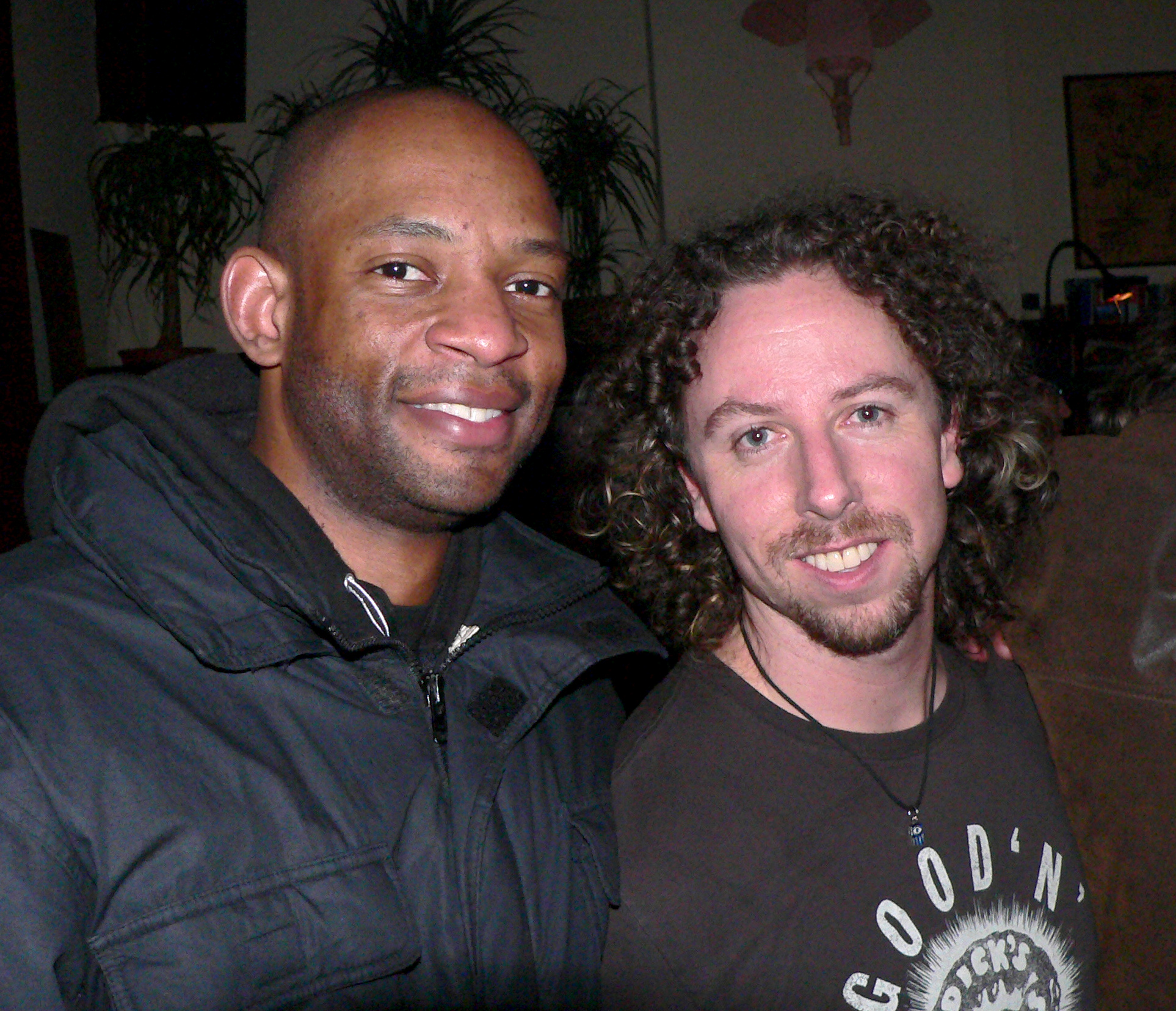 Michael Jerome and Joseph Karnes (of John Cale Band) @ Café Ranonkel Turnhout Belgium 3 February 2006